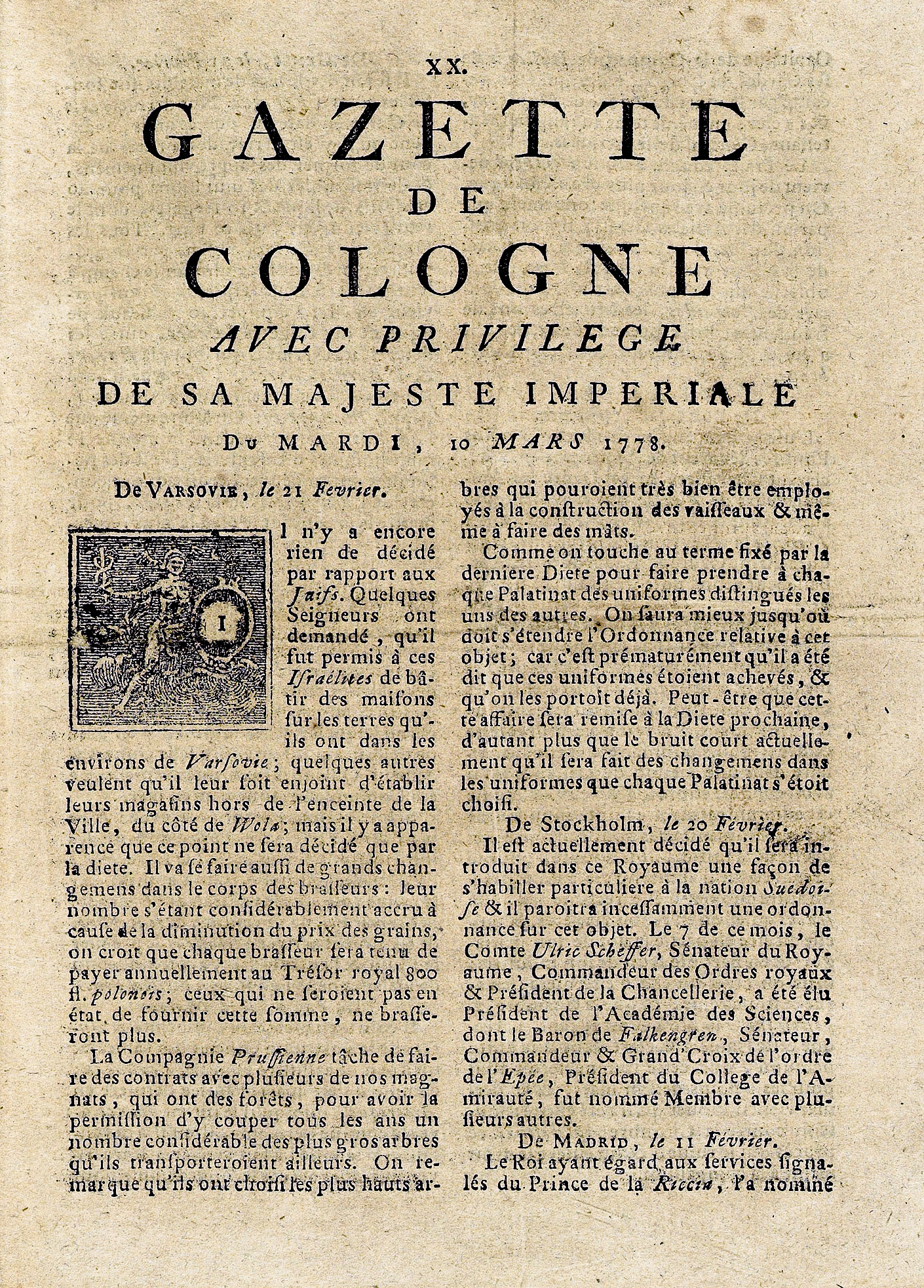 Titel page (page 1 of 4) of the Cologne Gazette, a leading Cologne based newspaper of the 18th century, in french language.